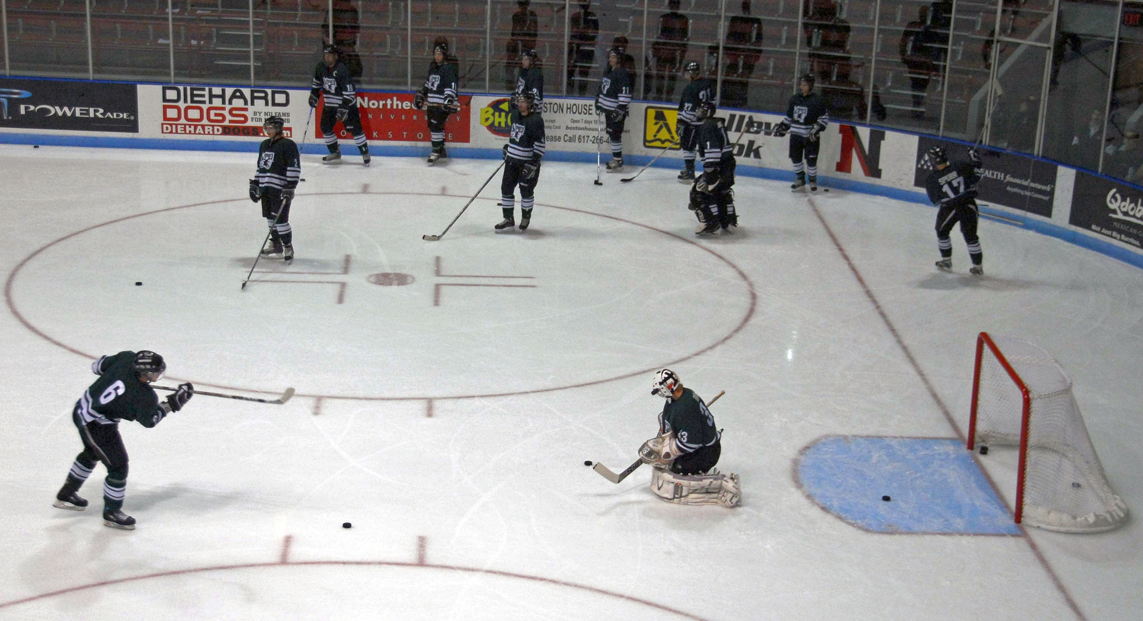 The UPEI Panthers hockey team warm-up to play an exhibition game against Northeastern University.